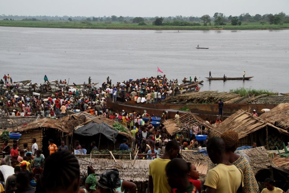 The town of Mbandaka is a busy port on the banks of the Congo River. In recent months a cholera epidemic spread across Equateur province in western DR Congo Photo: Oxfam